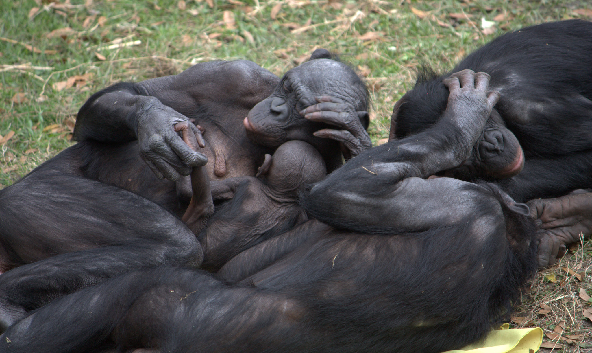 Bonobo group hug